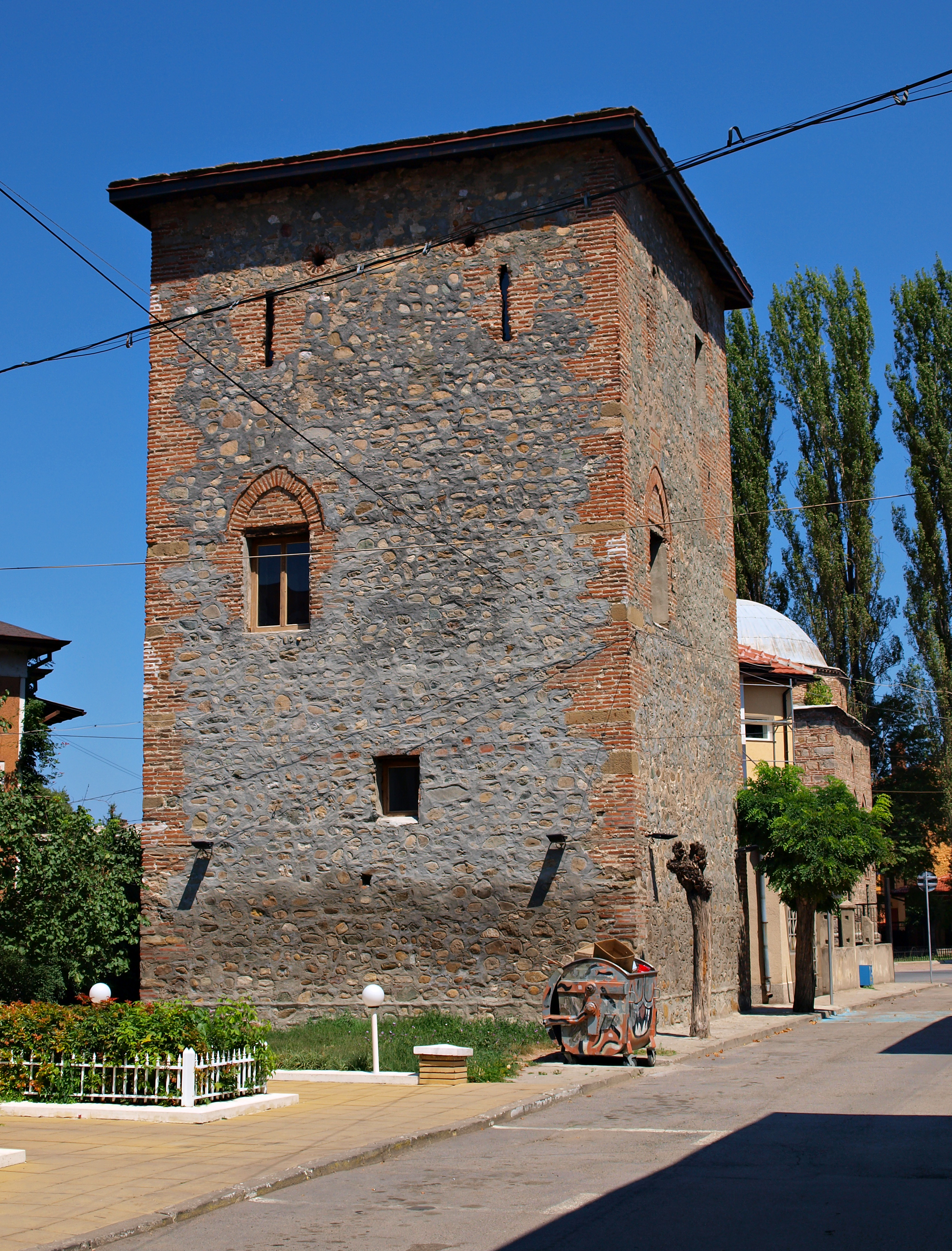 Pirgova Tower (15th-16th century) in Kyustendil, southwestern Bulgaria